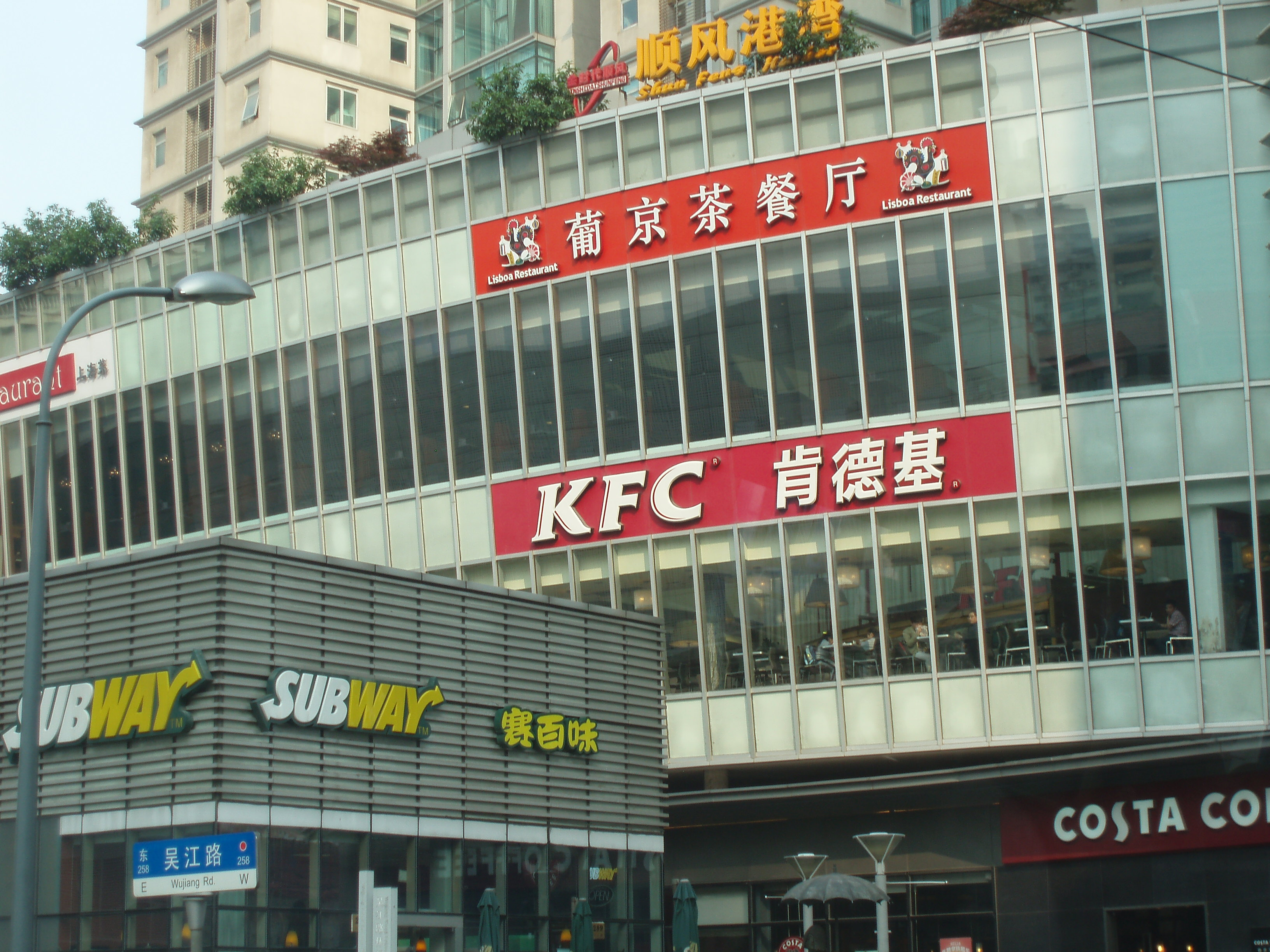 KFC in China